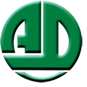 Assemblies of God Colombia